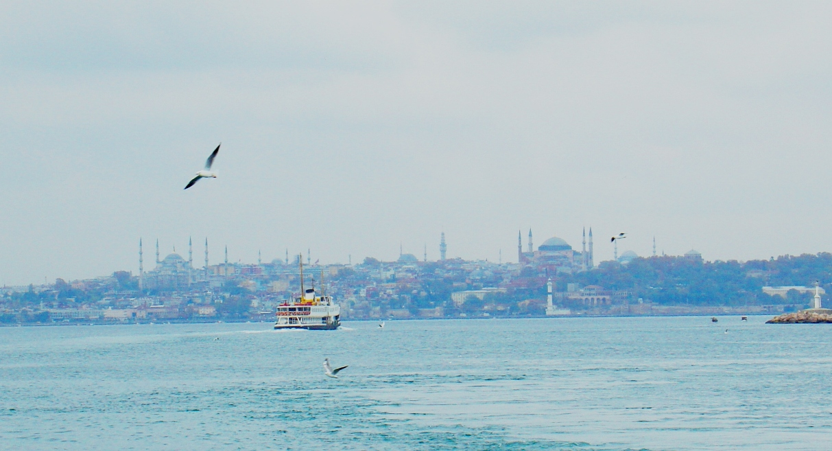 Bosphorus, Istanbul, Turkey.